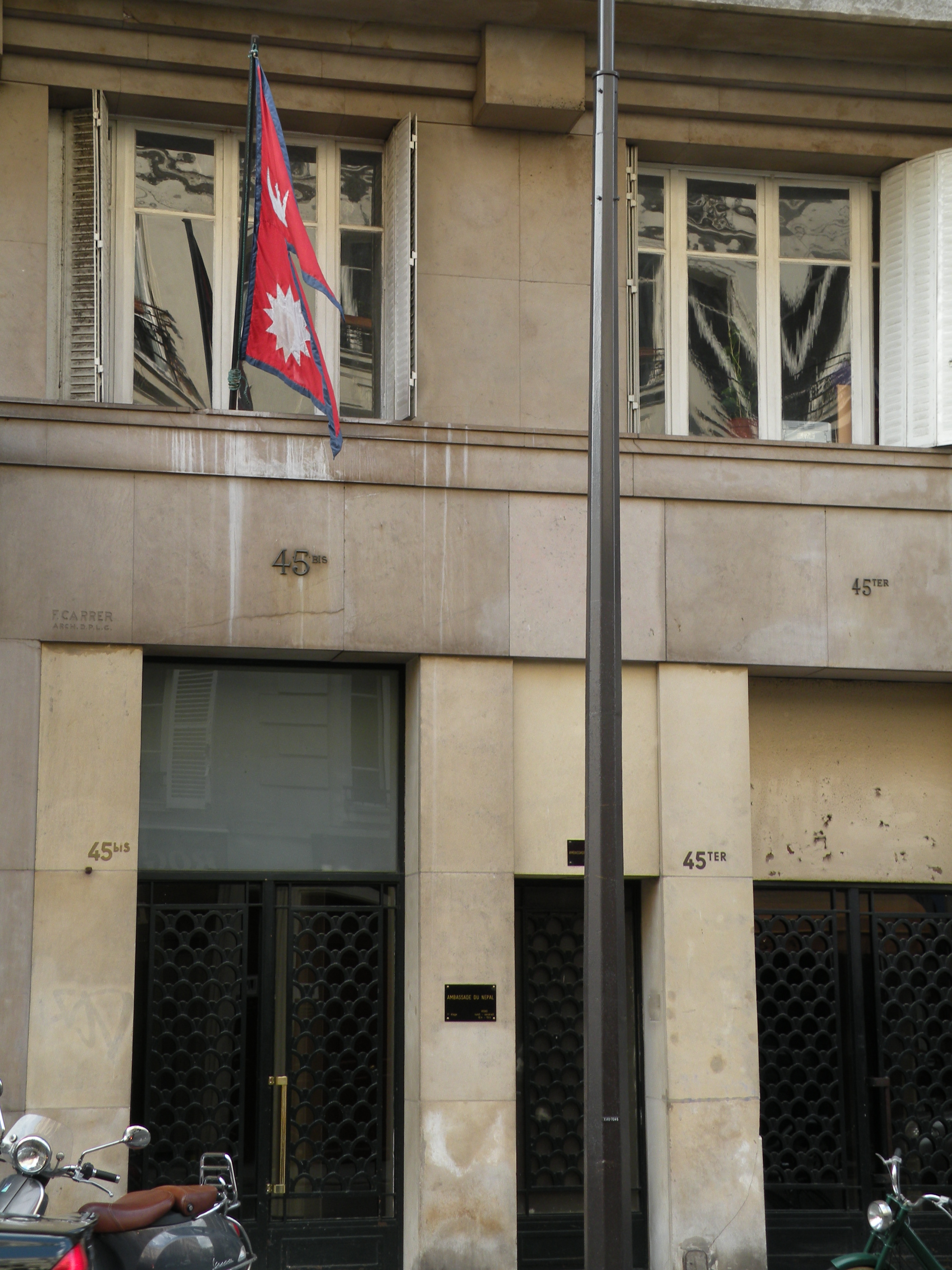 Nepali embassy in France, Paris